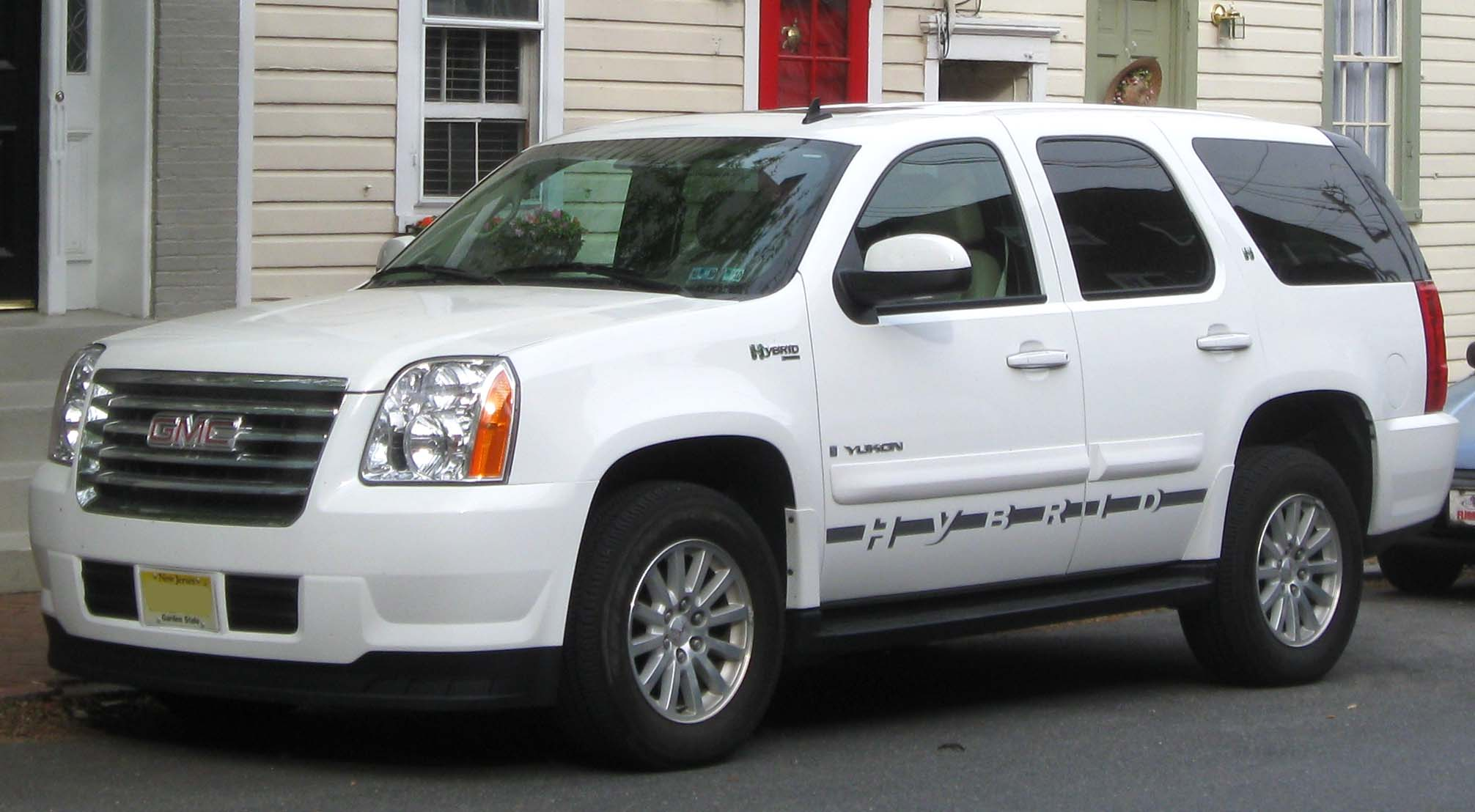 GMC Yukon Hybrid photographed in Annapolis, Maryland, USA.